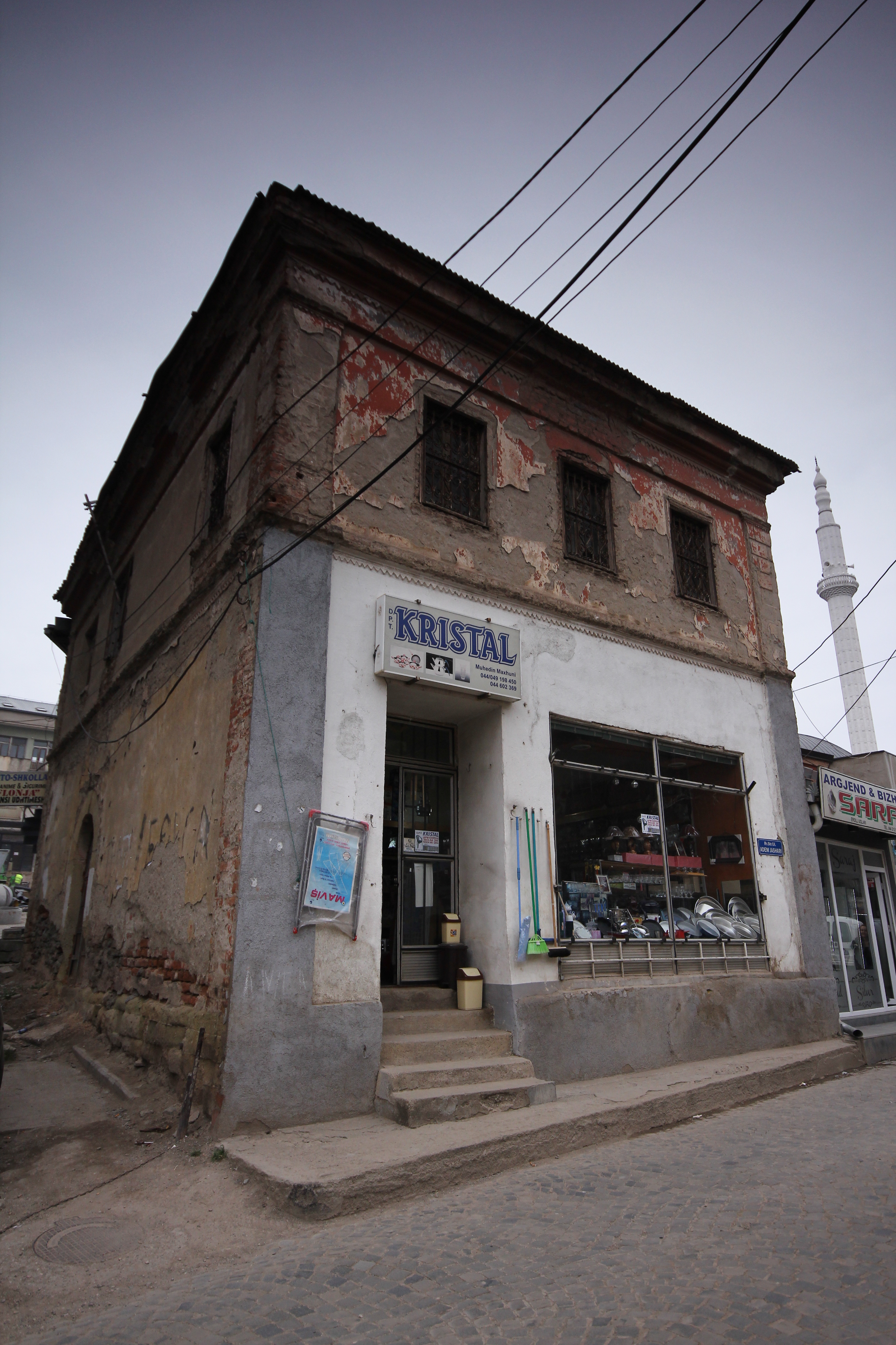 Vushtrri